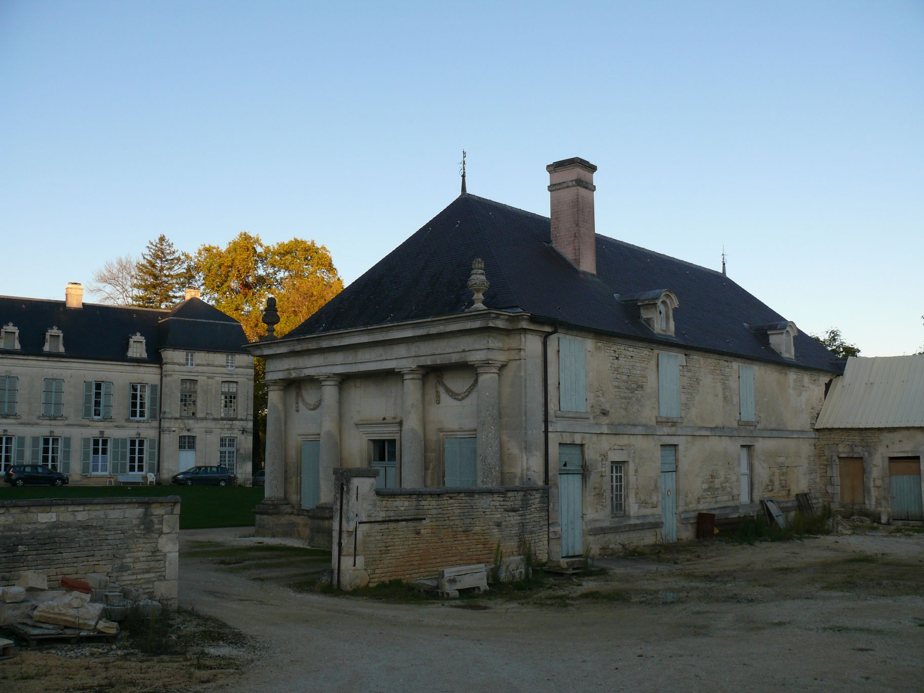 The castle of Ricey-Bas, at Les Riceys (Aube, Champagne-Ardenne, France).